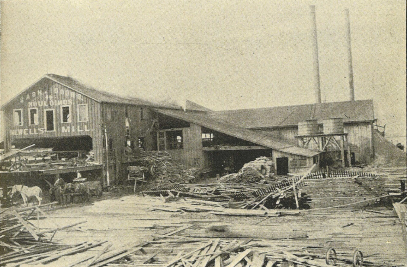 "The plant of the Newell Nill Co., South Seattle" from brochure Seattle and the Orient (1900). Sign on building says "Sash, Doors, Mouldings. Newell's Mill." The previous page of the same brochure describes its location as "the most southern portion of Elliott Bay", apparently in what is now South Park; see David Wilma, Seattle Neighborhoods: South Park -- Thumbnail History, HistoryLink essay number 2985, February 16, 2001.